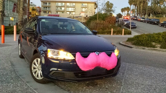 A Lyft vehicle in Santa Monica, CA